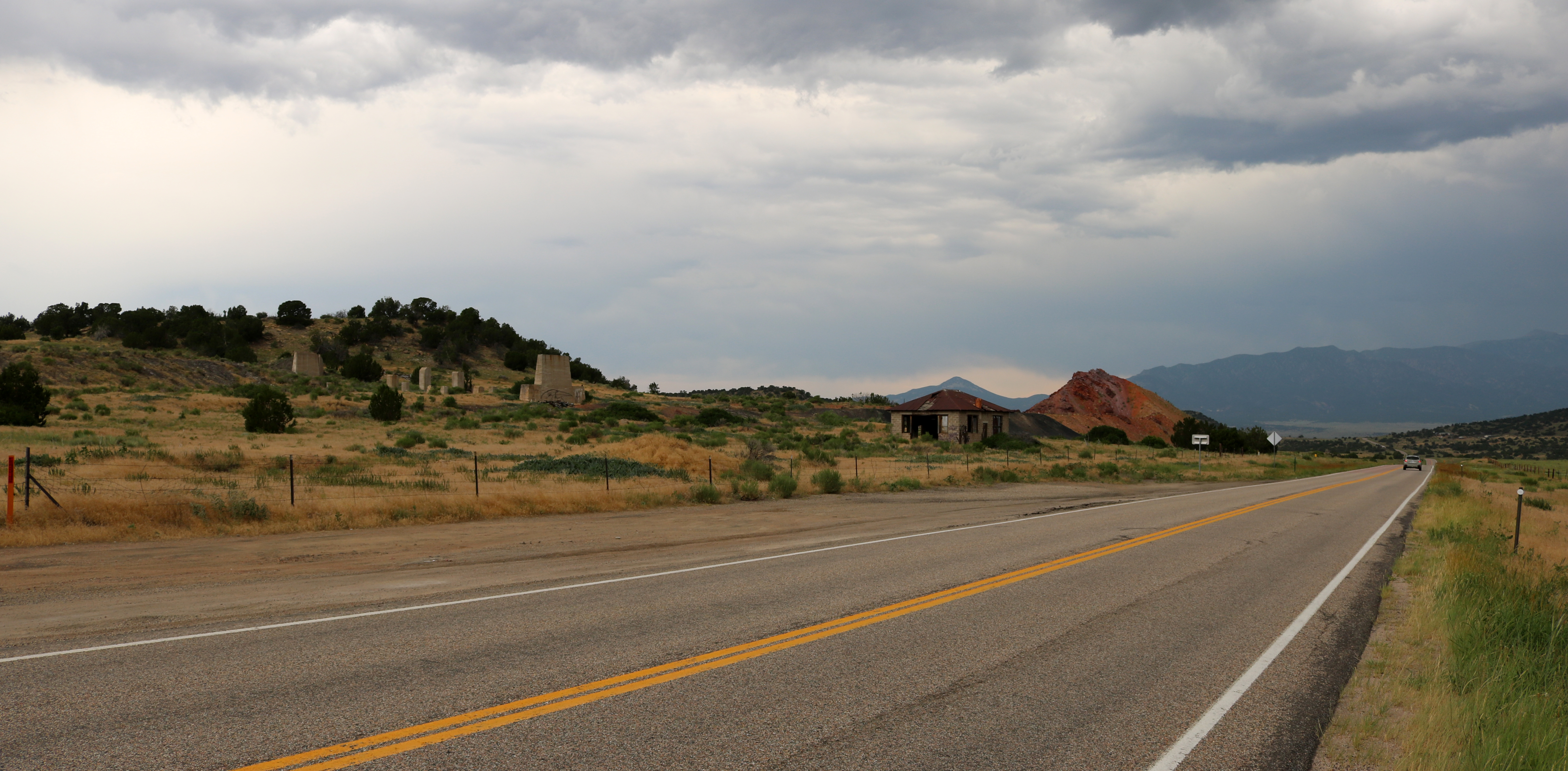 The ghost town and former mining community of Calumet, Colorado, located along Colorado State Highway 69 in Huerfano County, Colorado.